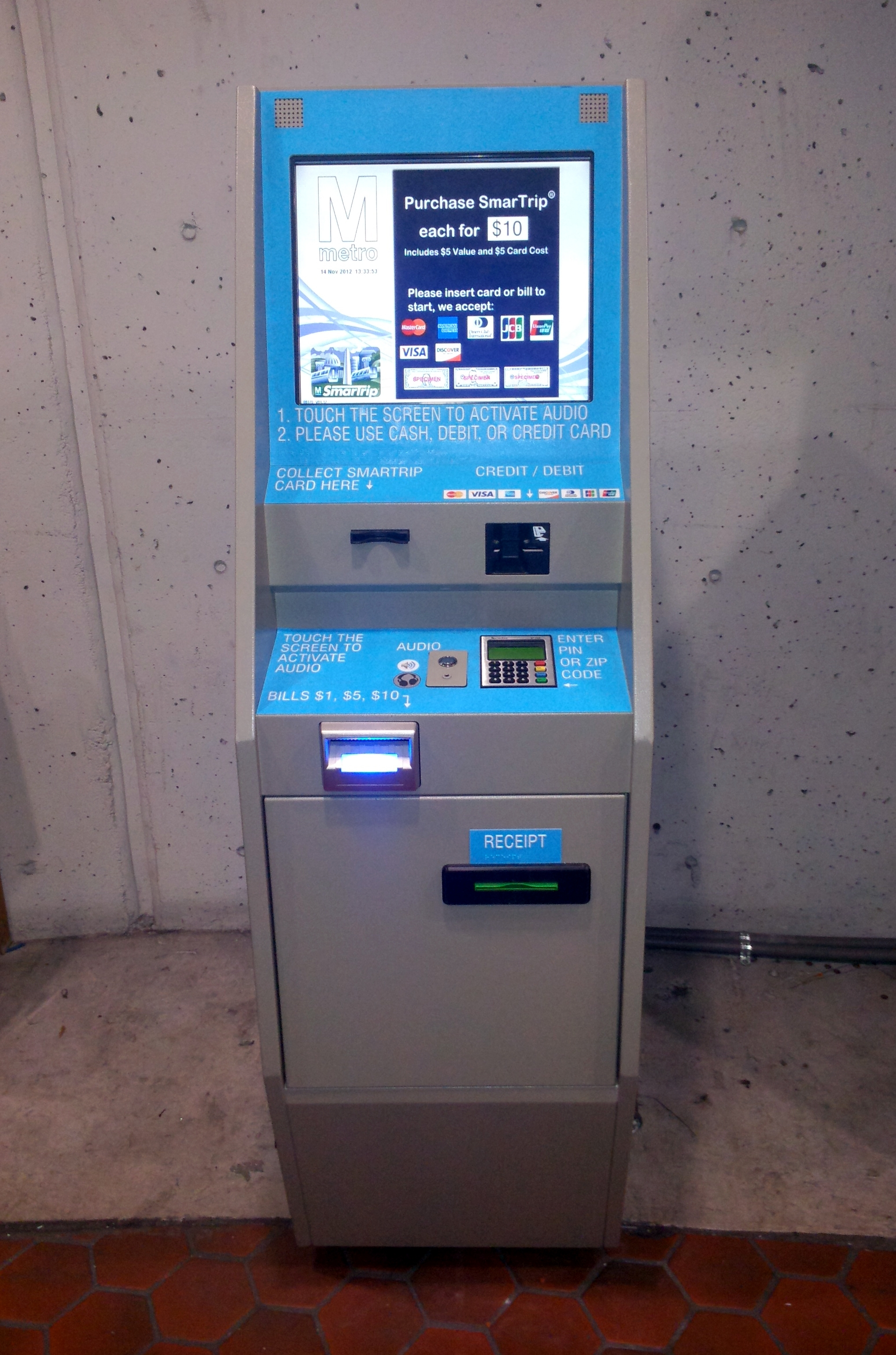 View of a SmarTrip vending machine of the Washington Metro system, installed in the Metro Center station in 2012. These machines are the system's first self-service SmarTrip vending machines located within the Metro stations. Previously the cards could only be purchased online or at retail outlets. This machine provides Braille labeling and optional audio-based interaction for the purchase process, for visually impaired customers.